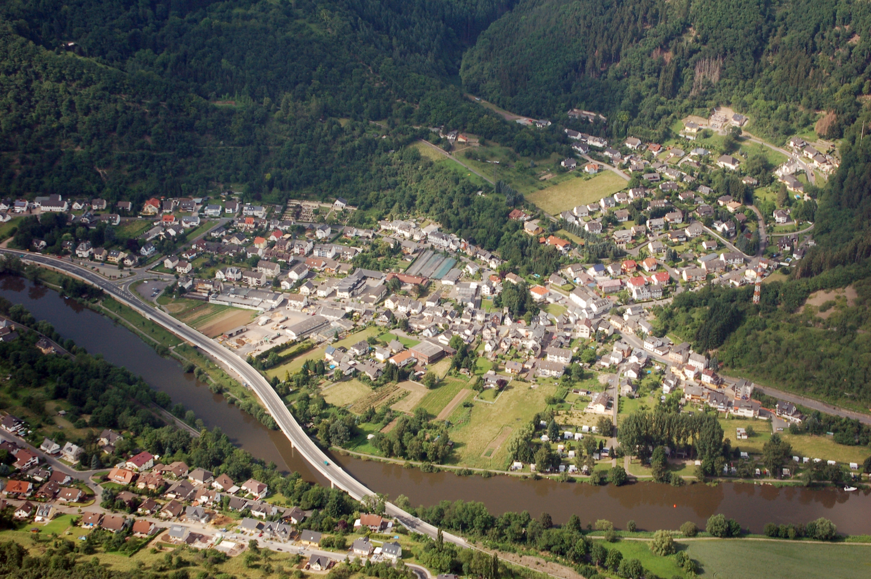 Aerial photograph of Fachbach, Verbandsgemeinde Bad Ems, Rhineland-Palatinate, Germany